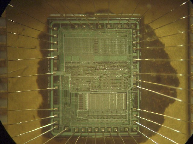 USSR MCU KM1816VE48 die (i8748 clone)